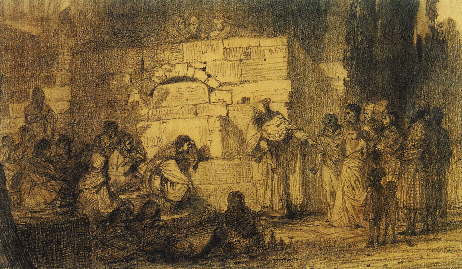 Christ and the woman taken in adultery (pencil study by Vasily Polenov for the 1888 painting)